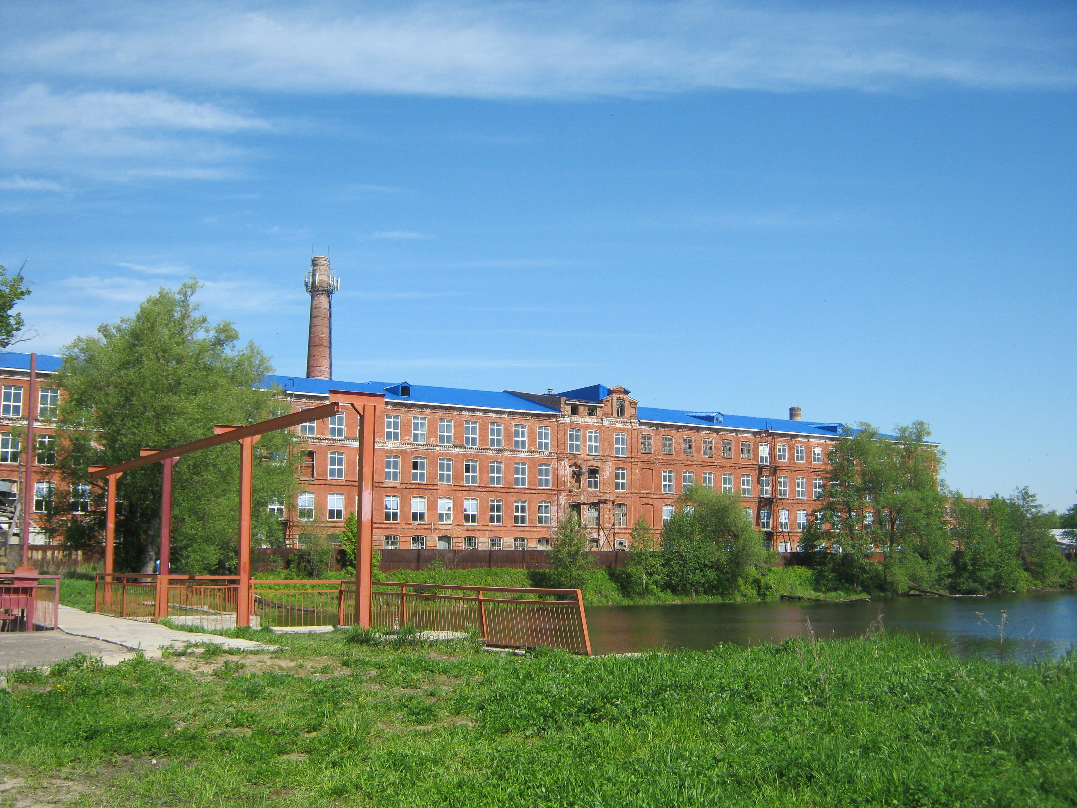 Yuzha. Textile factory.